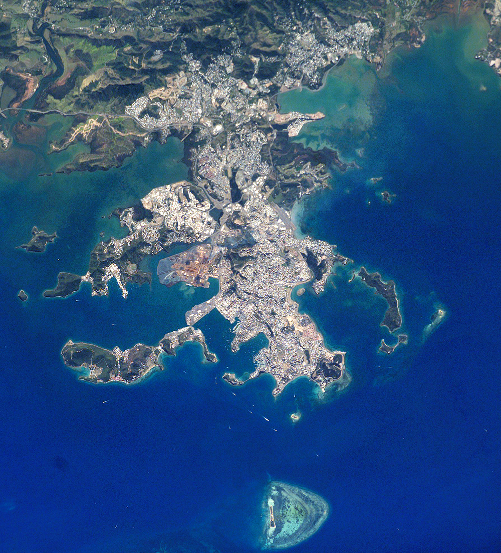 Satellite view of the New-Caledonian capital Nouméa